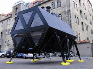 The picture shows the "Walking House" by Danish artist group N55.